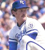 Professional baseball player Rich Gale